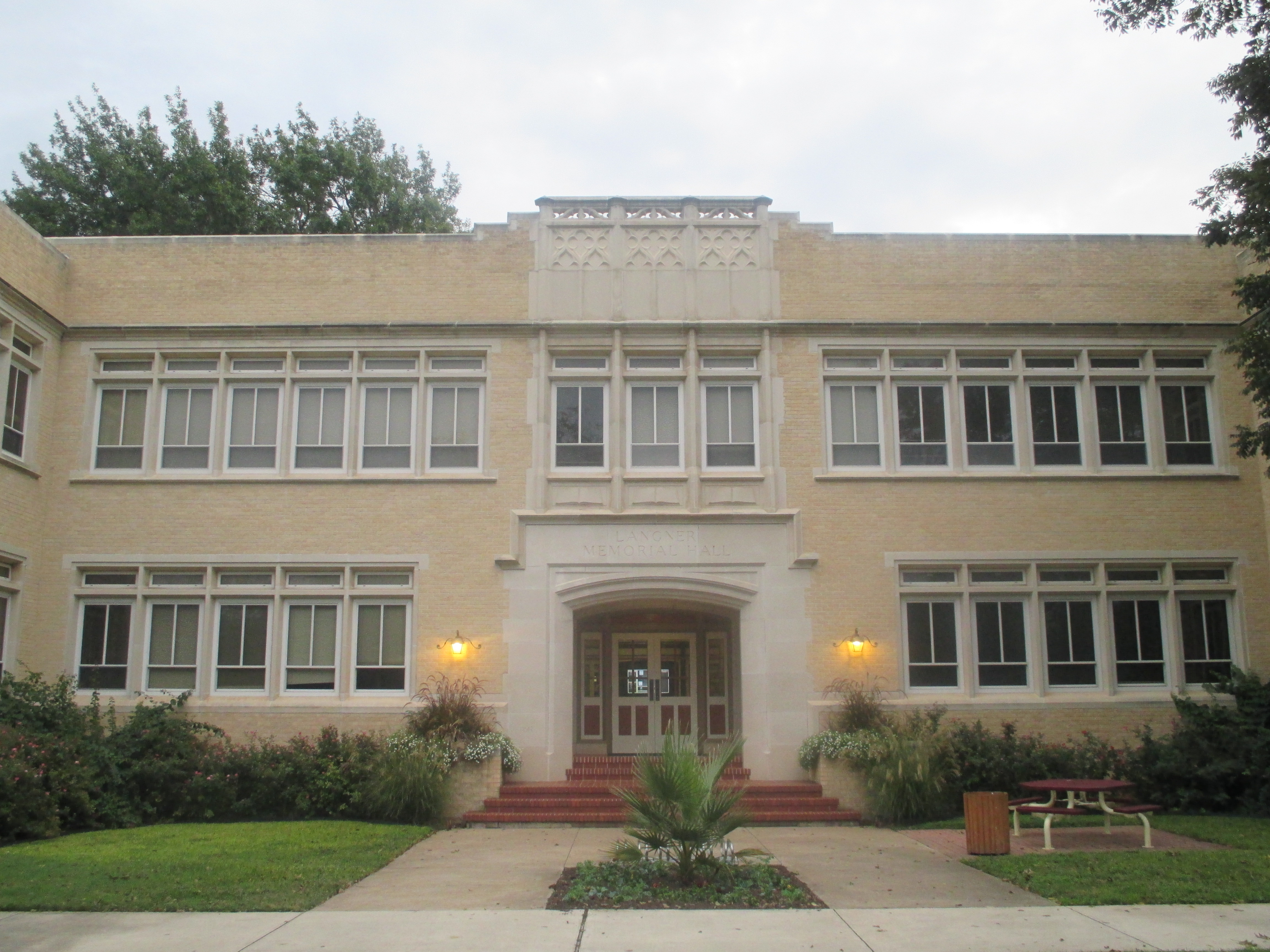 Langner Memorial Hall at Texas Lutheran University in Seguin houses classrooms and faculty offices for the social science and humanities departments, as well as the Mexican American Studies Center and the Fiedler Memorial Museum and outdoor geological garden.